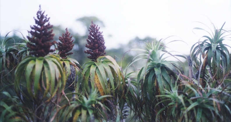 Dracophyllum traversii (Mountain Neinei), showing flower spikes. Mt Arthur, Kahurangi National Park, Aotearoa. Pentax K1000